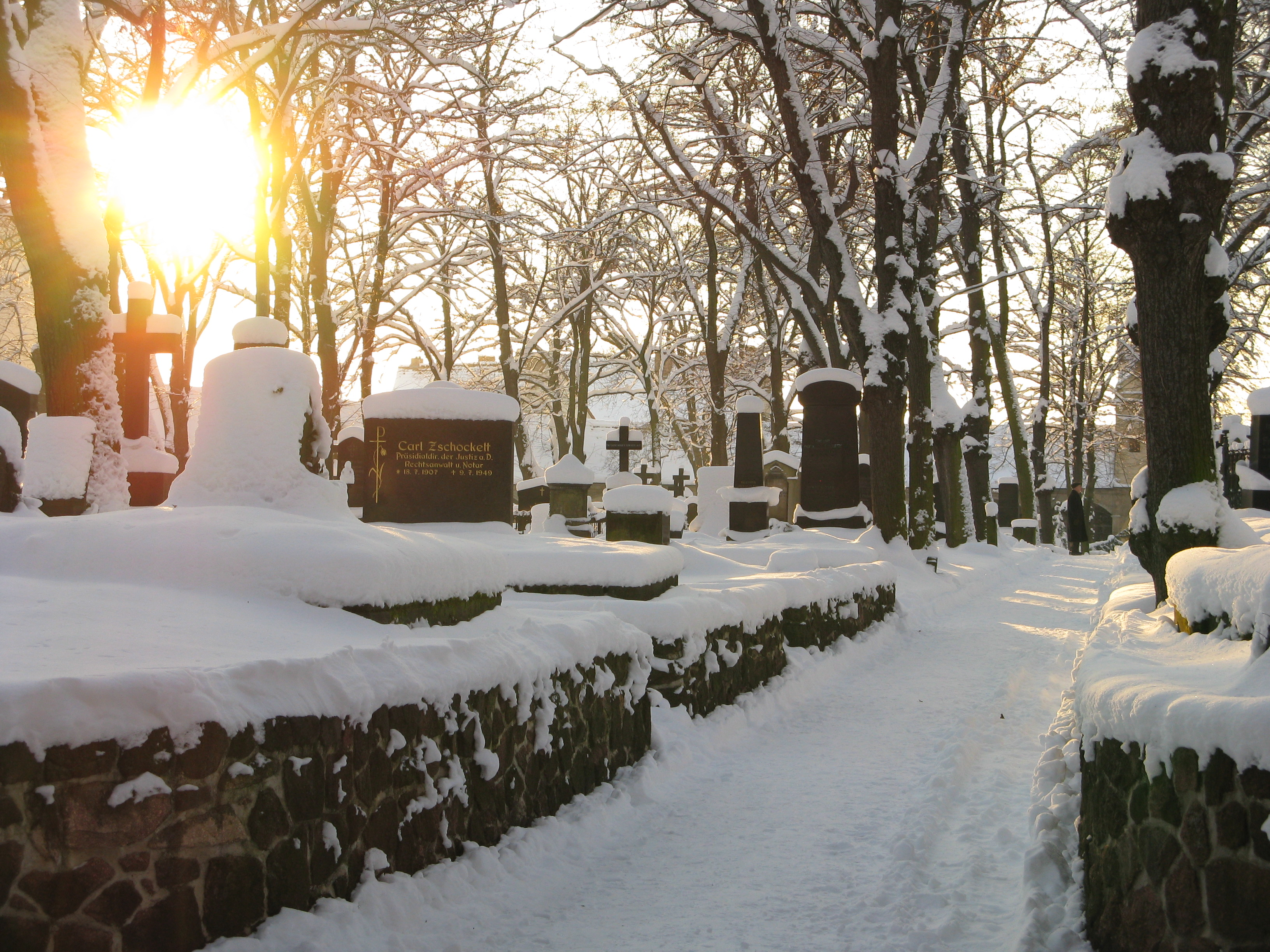 Halle (Saale) - The Town Cemetery was built in the 16th century, modeled after Italian Camposanto cemeteries and is considered a masterpiece of the Renaissance north of the Alps.